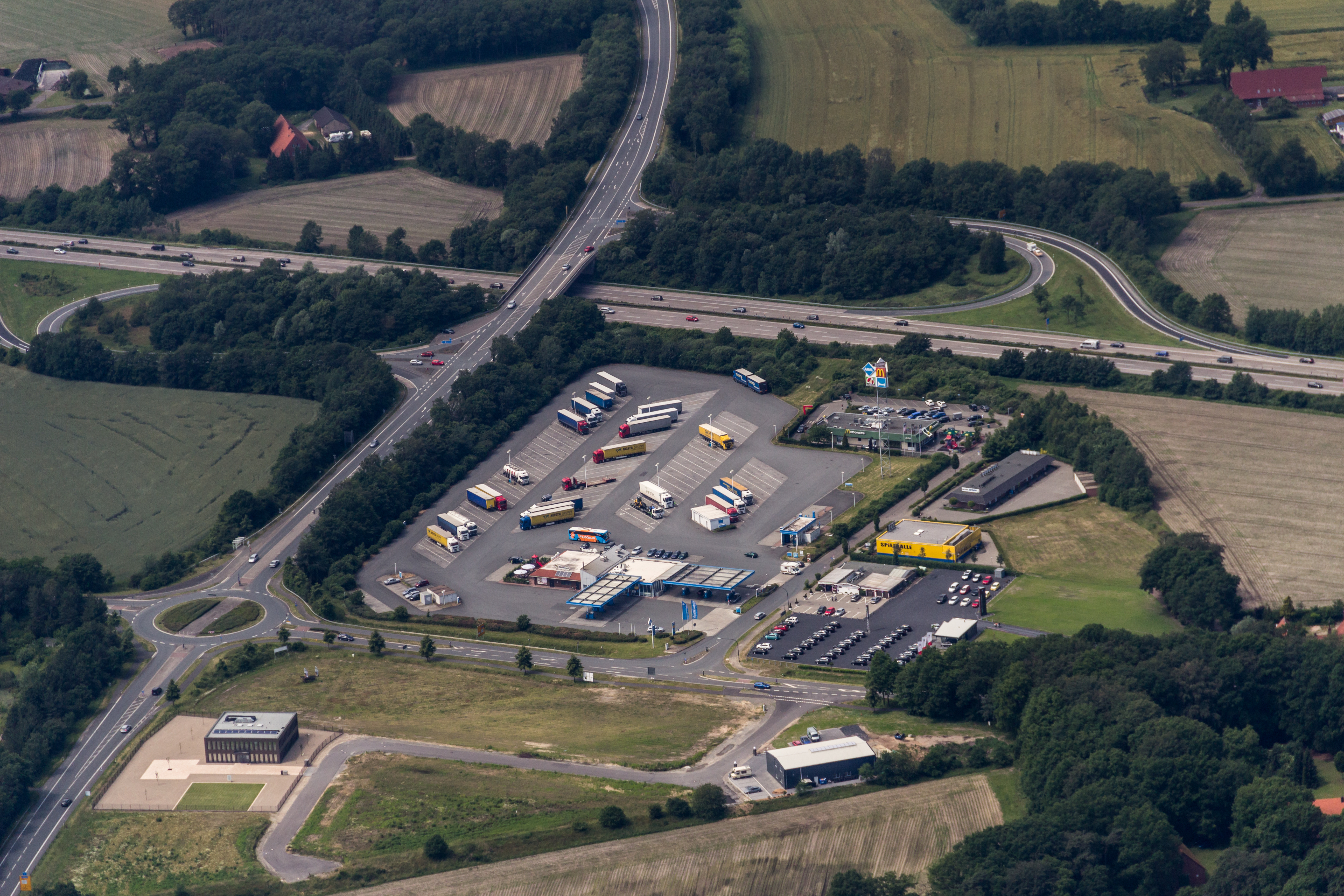 Autohof Ladbergen and Motel Espenhof, Ladbergen, North Rhine-Westphalia, Germany